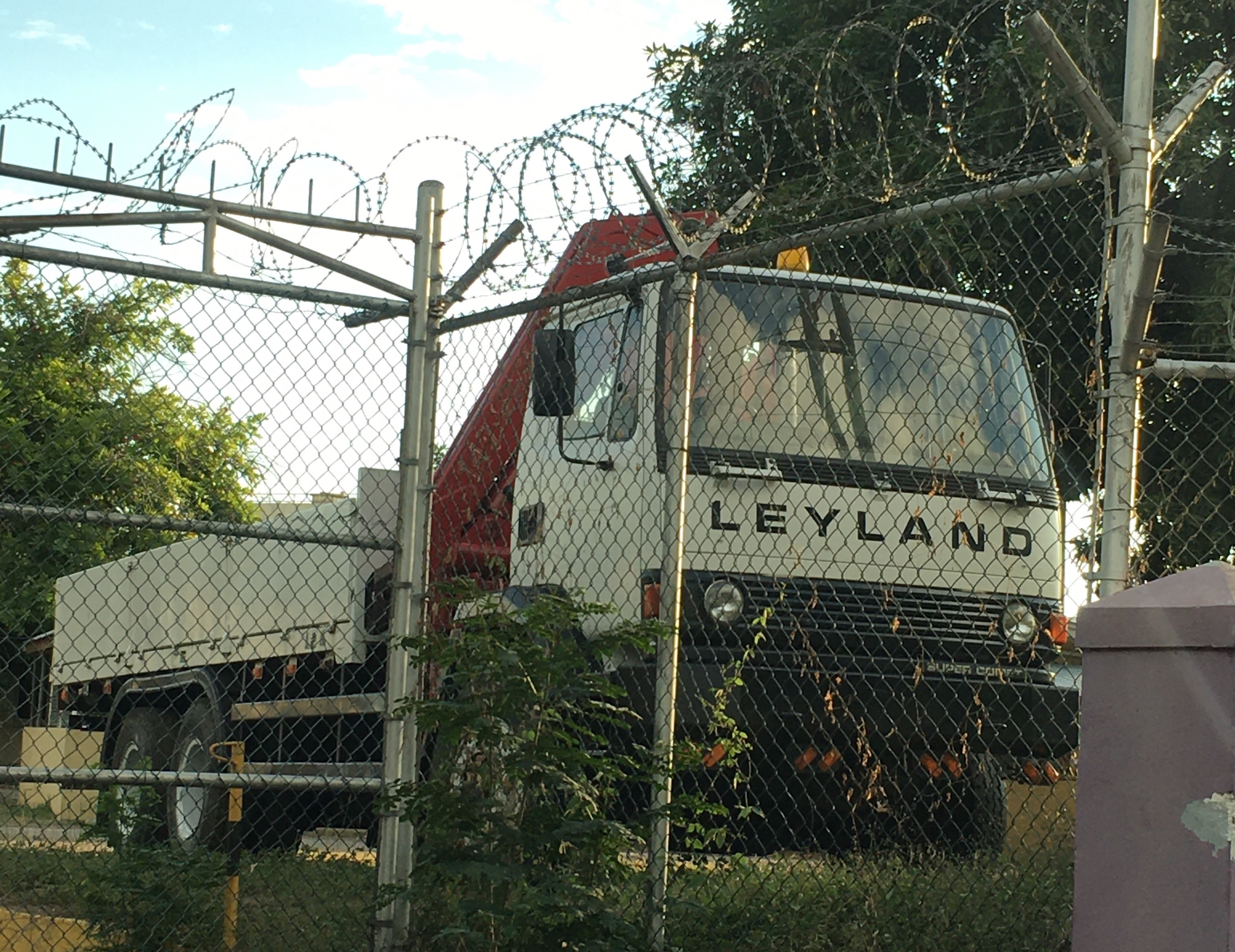 1980s Leyland Super-Comet in Jamaica